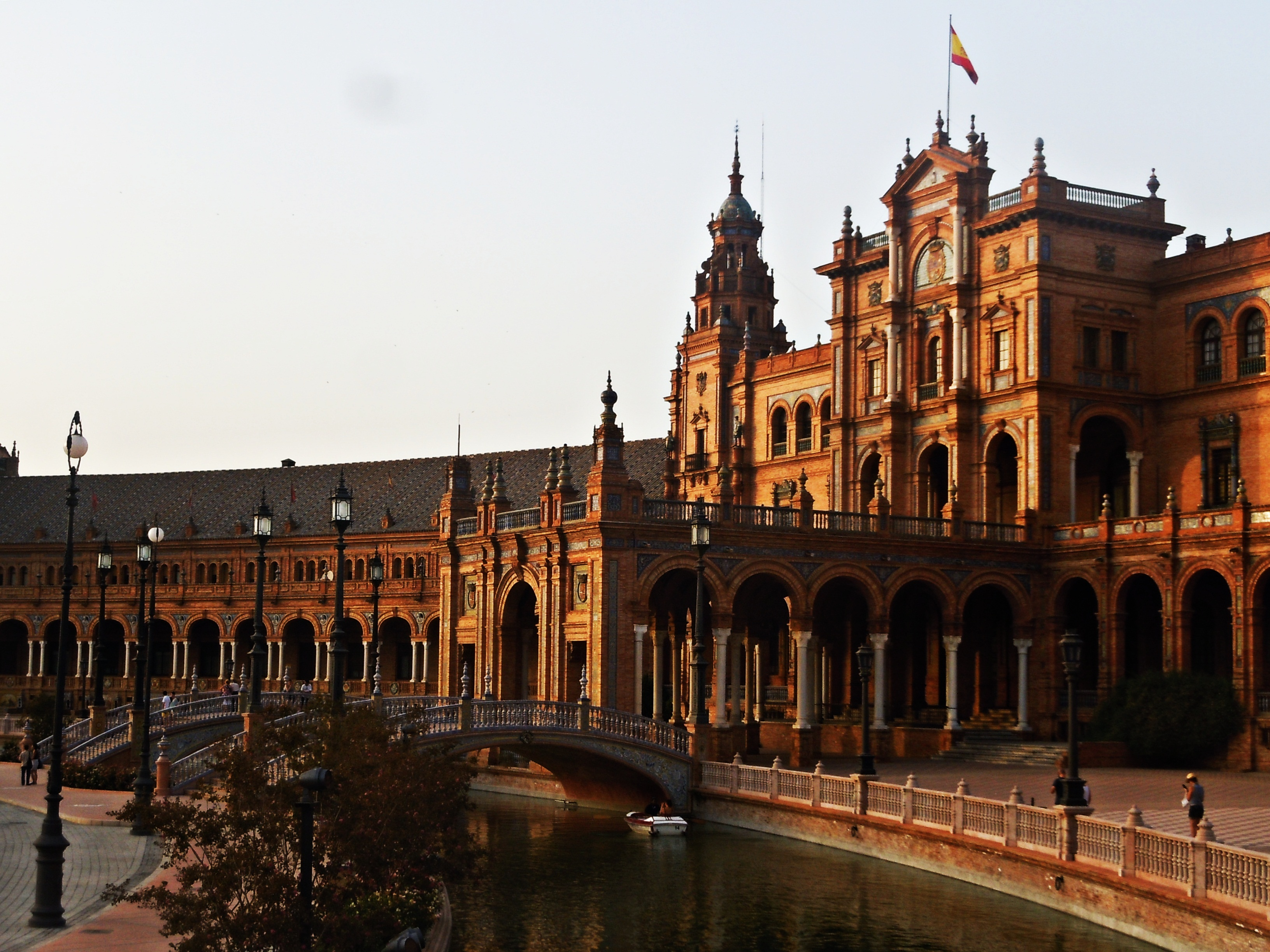 The Plaza de España ("Spain Square", in English) is a plaza located in the Parque de María Luisa (Maria Luisa Park), in Seville, Spain built in 1928 for the Ibero-American Exposition of 1929. It is a landmark example of the Renaissance Revival style in Spanish architecture.